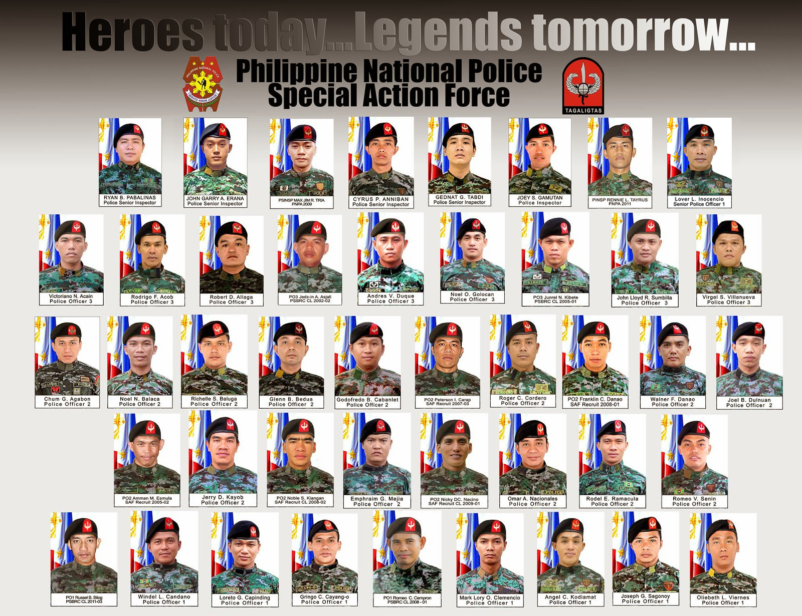 From PNP SAF website - The 44 police officers who died during the Mamasapano clash Tagalog: Mula sa PNP SAF website - Ang mga 44 na pulis opisyal na namatay sa sagupaan sa Mamasapano